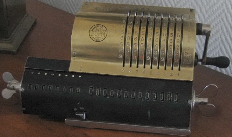 An early Odhner machine made in Saint-Pétersbourg before 1900.